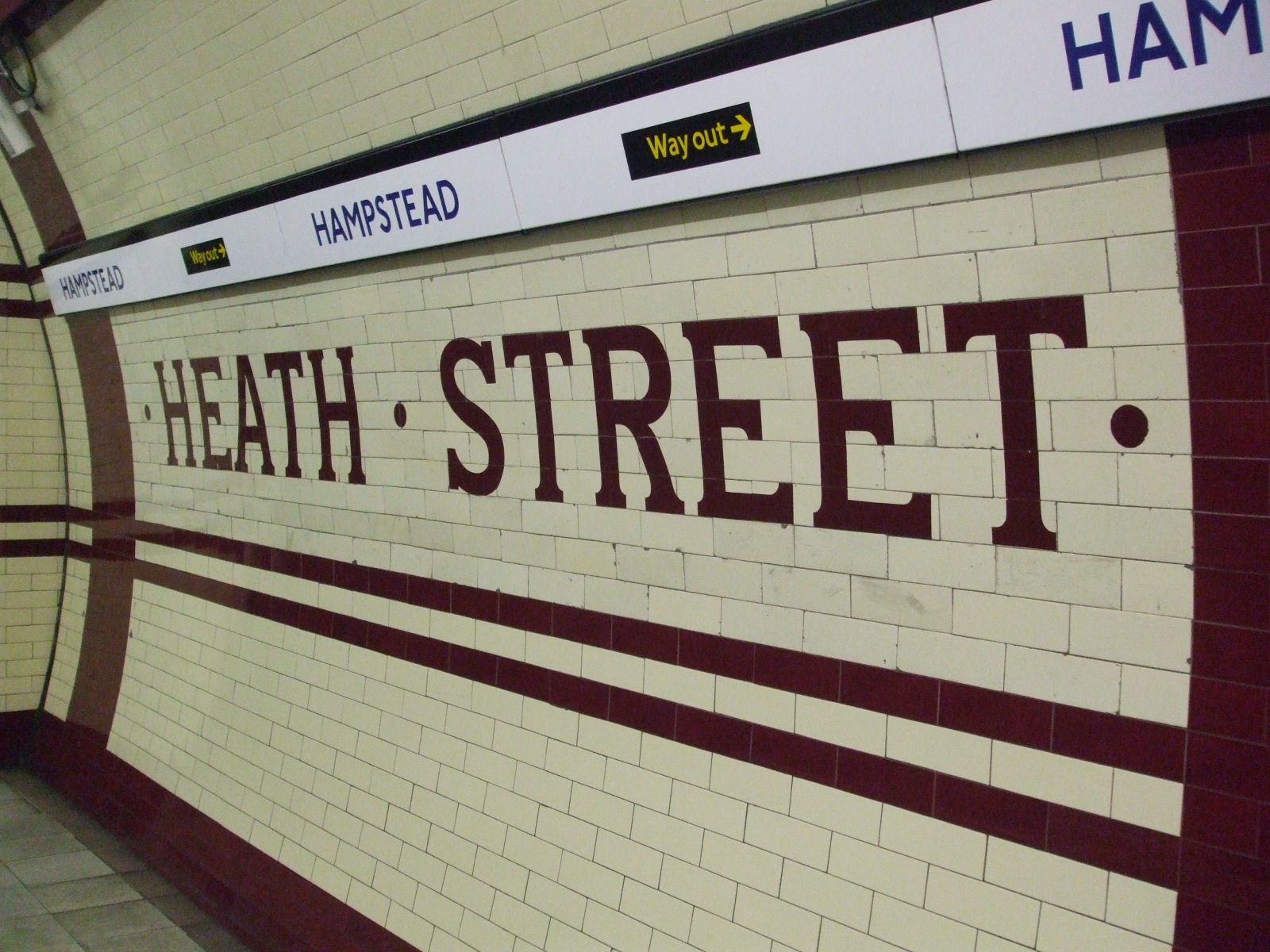 Tiling on Hampstead station southbound platform, revealing the proposed original station name of "Heath Street".